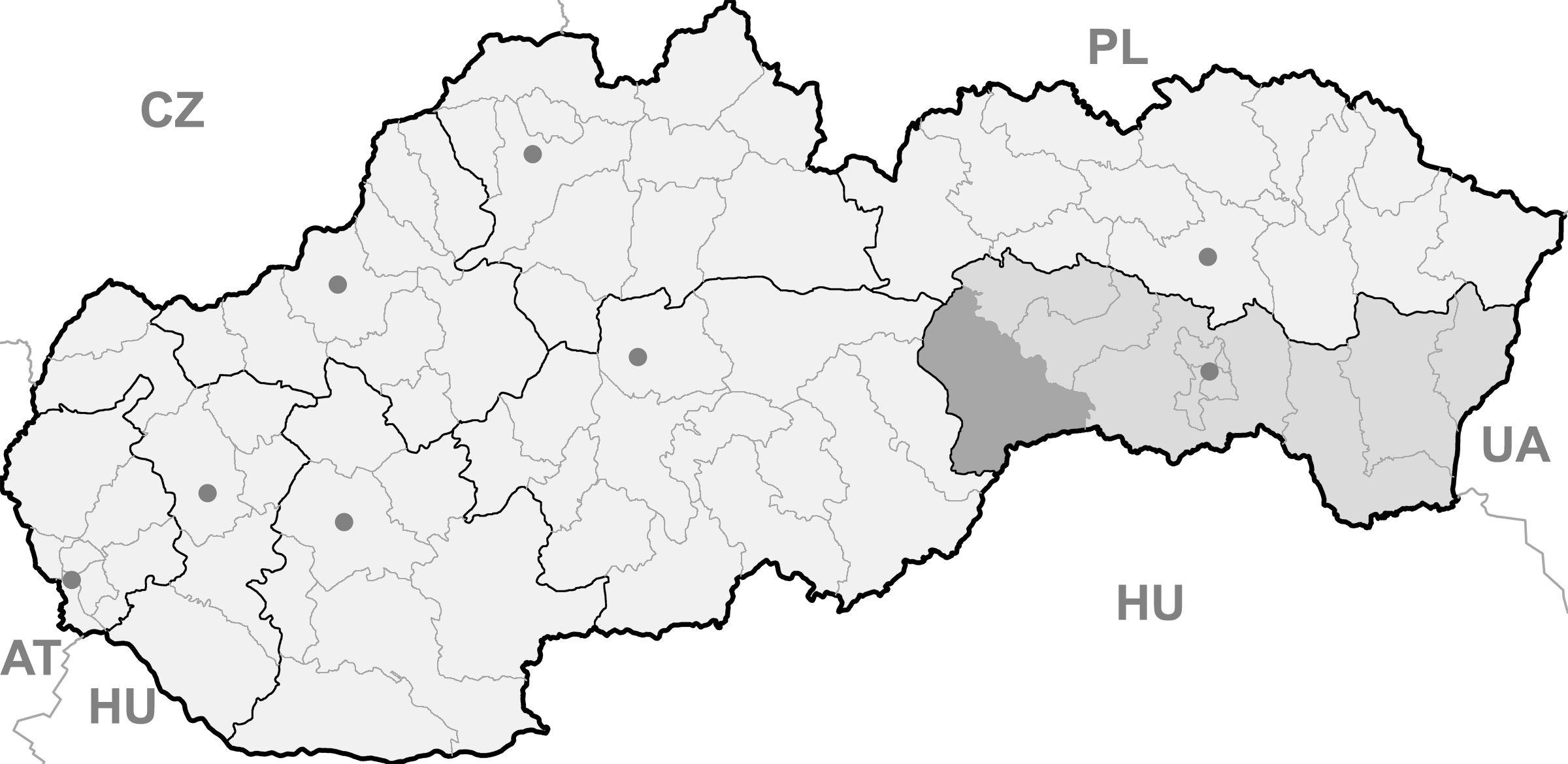 Map of Slovakia, Roznava district and Kosice region highlighted